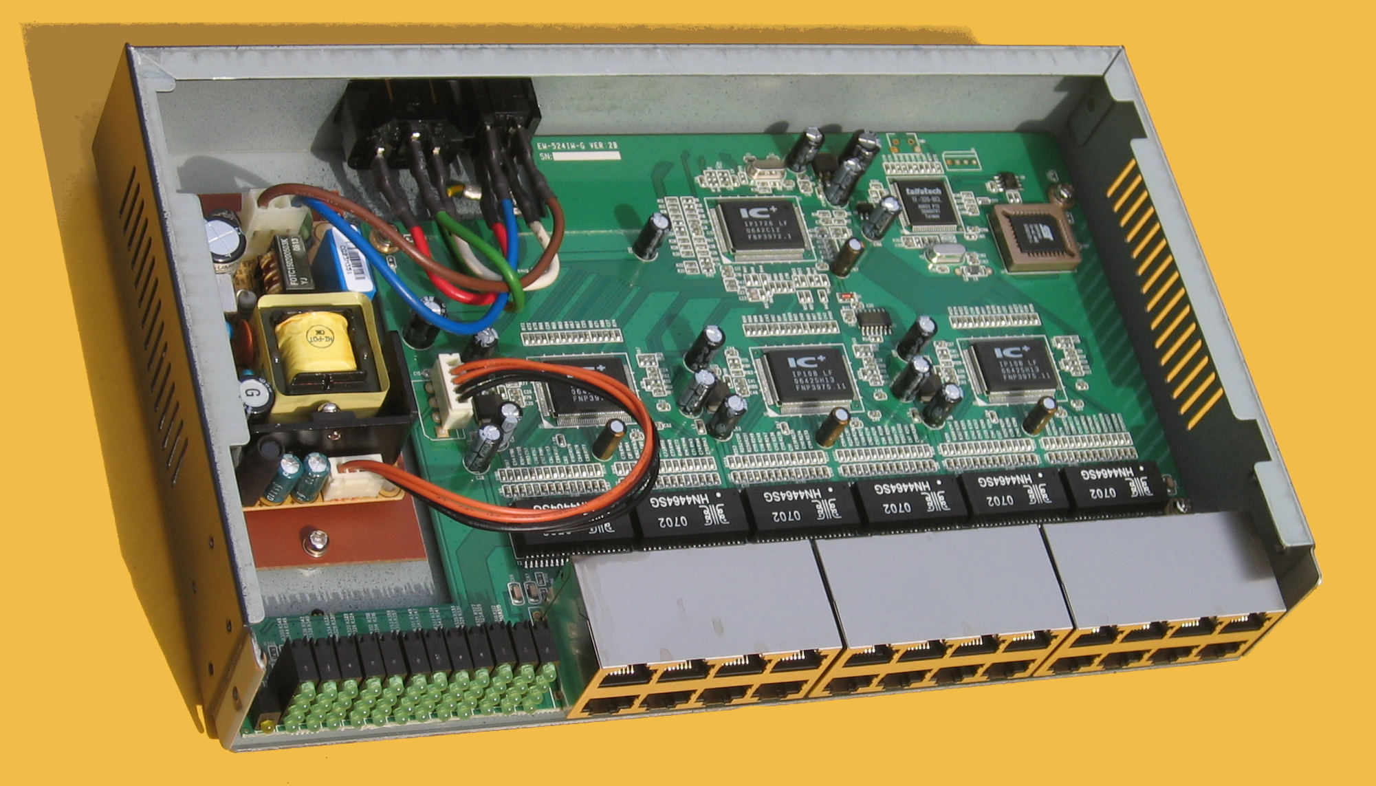 10-100 MBIT managed switch with power supply failure